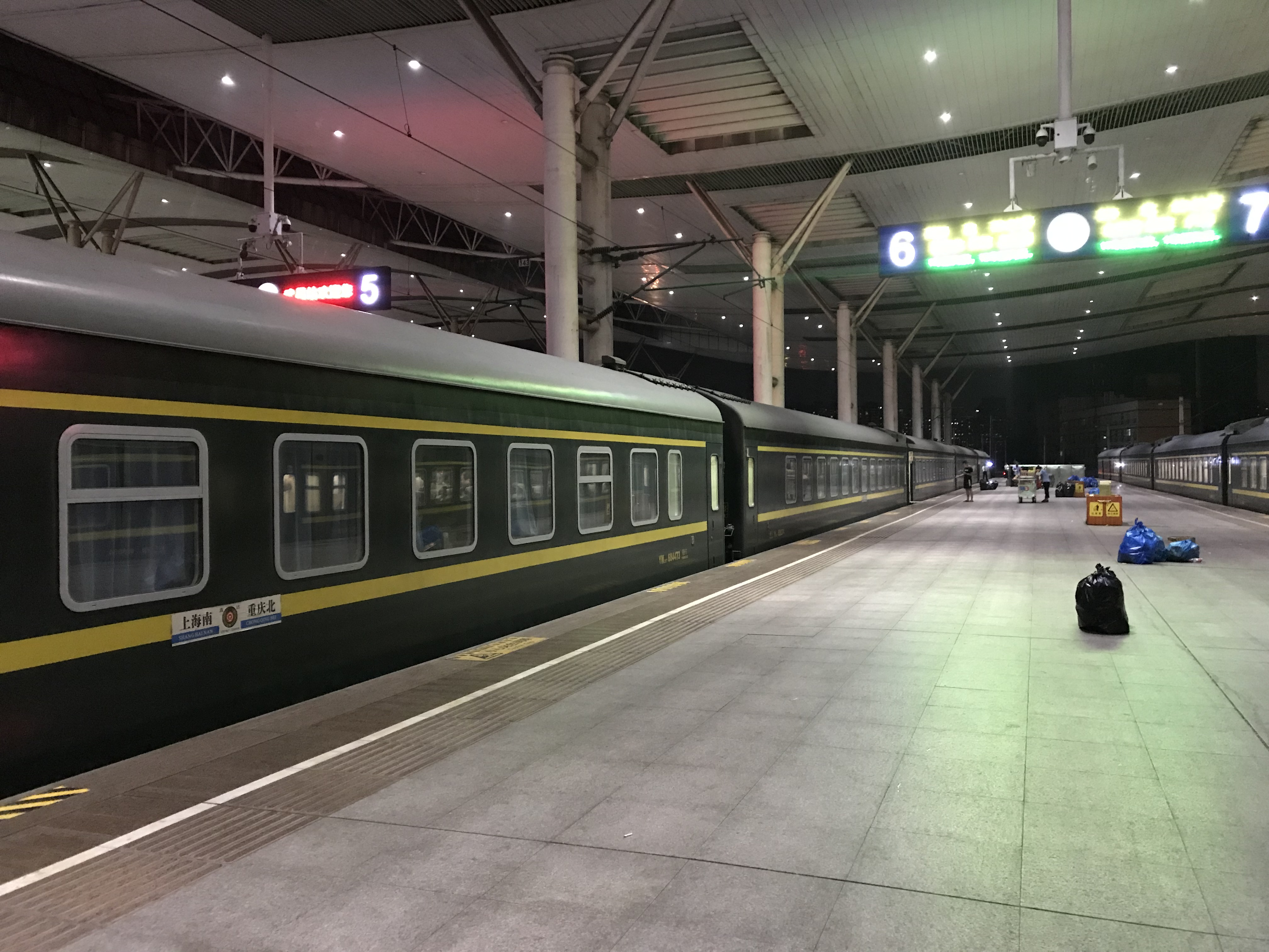 Z258 is the last express trains to Yangtze River Delta via Wuhan-Jiujiang-Quzhou Railway after Z25, Z31 and Z45